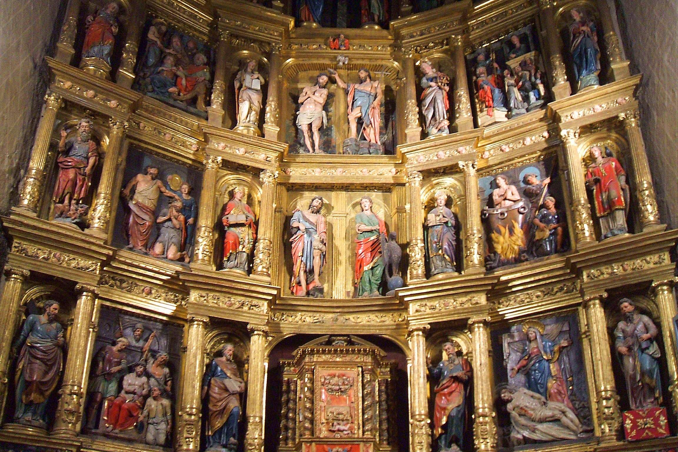 Iglesia de San Juan Bautista, Estella. Retablo mayor